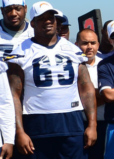 U.S. Navy Capt. Christopher Bolt, right foreground, the commanding officer of the aircraft carrier USS Ronald Reagan (CVN 76), welcomes the San Diego Chargers during a morale-boosting event with the San Diego Chargers Aug. 28, 2013, in San Diego. The ship was moored and homeported at Naval Base Coronado.